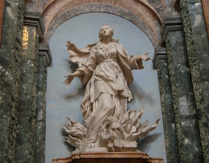 Statue of Saint Agnes, Sant'Agnese in Agone, Rome